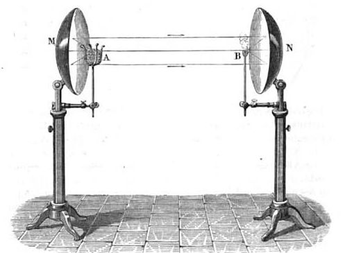 Burning mirrors